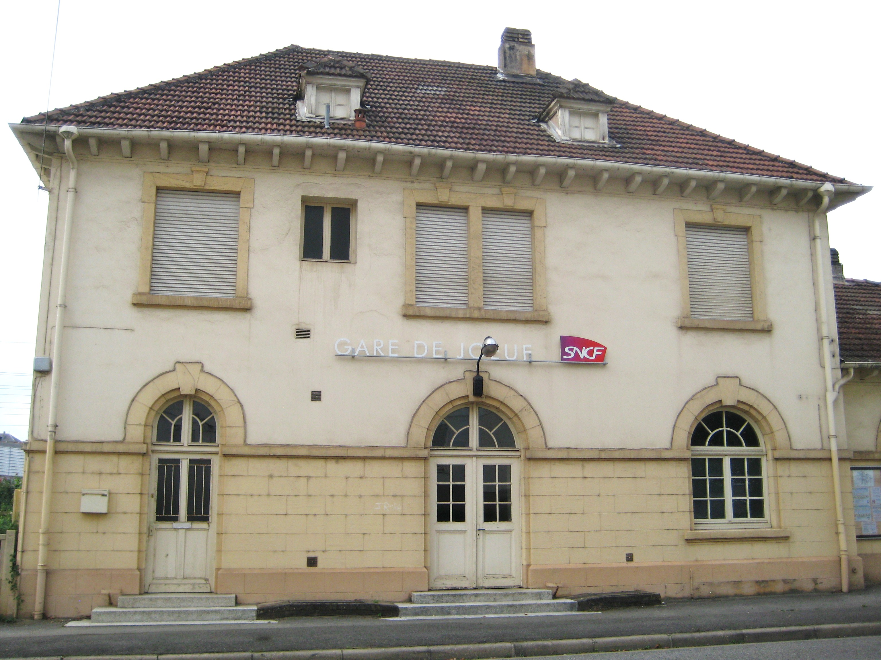 Description gare Joeuf Date29 August 2011Sourcemon appareil photoAuthorAimelaimePermission (Reusing this file) gare Joeuf